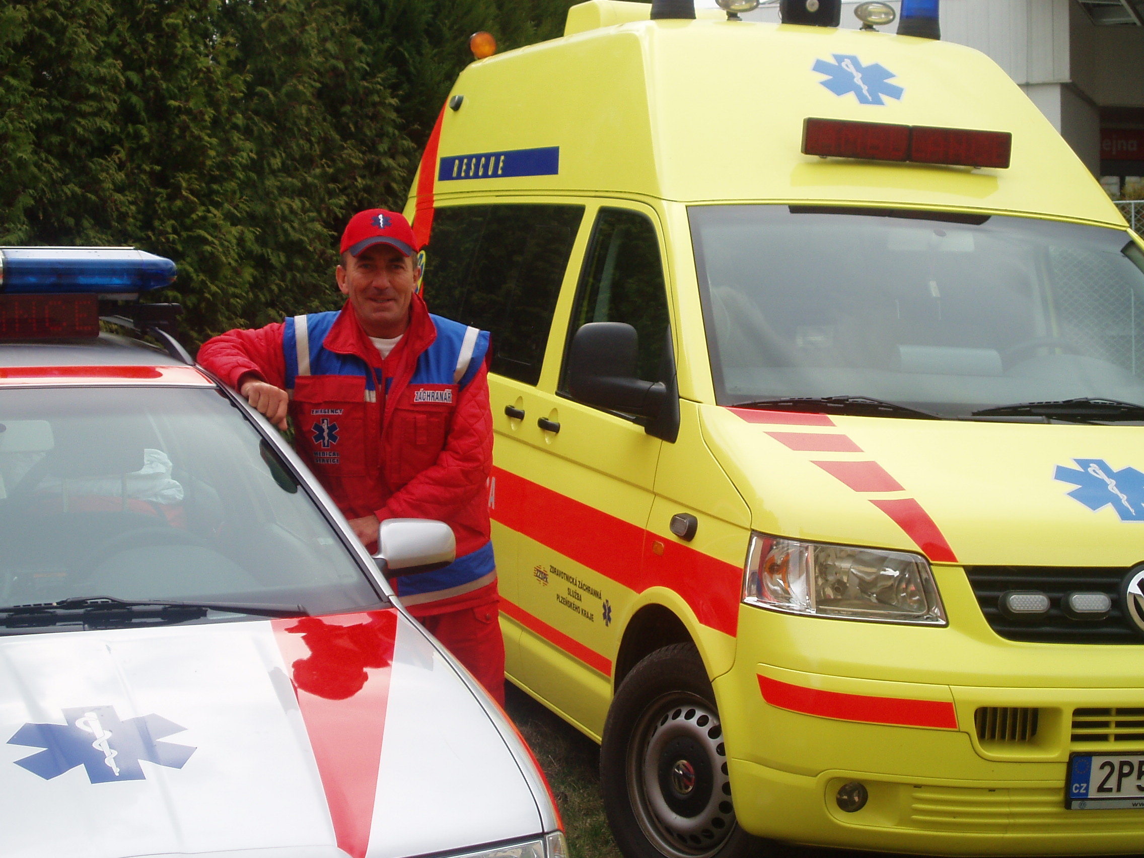 A medical rescue worker.